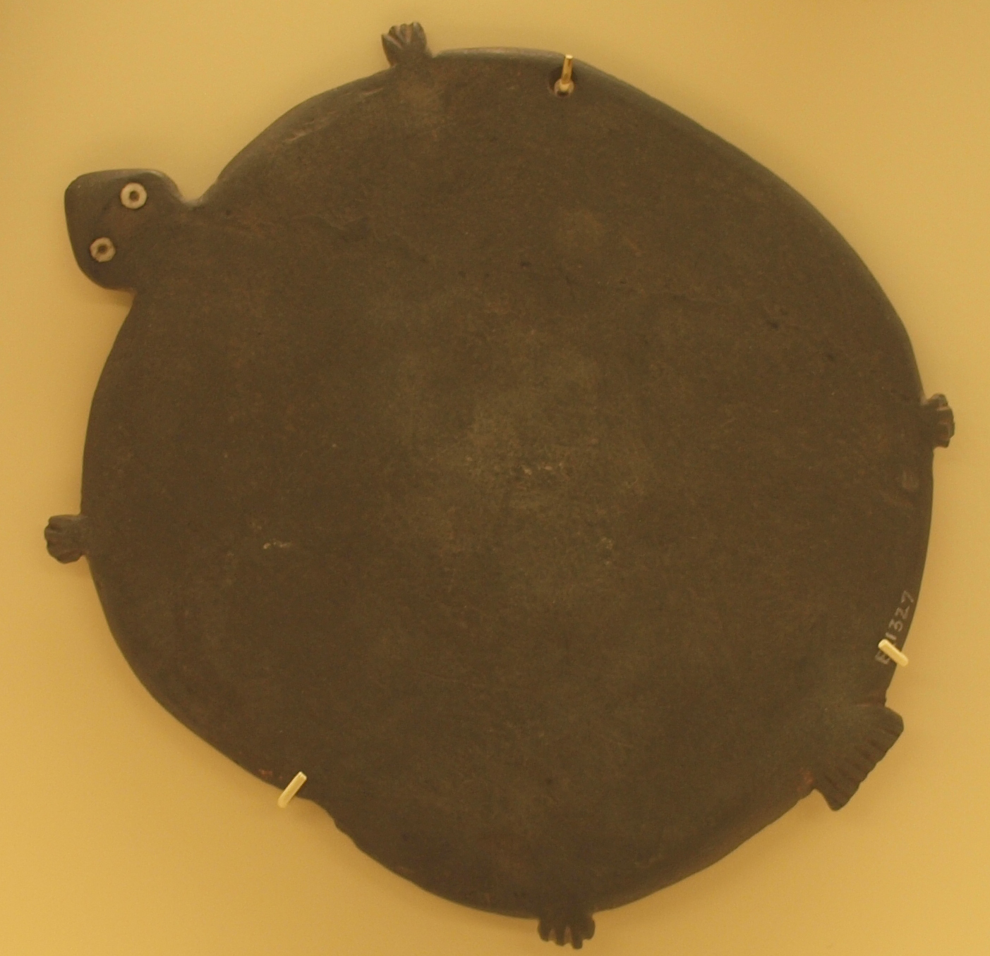 April 27, 2013 - Protodynastic Turtle-shaped Palette, Royal Ontario Museum (B.1327)